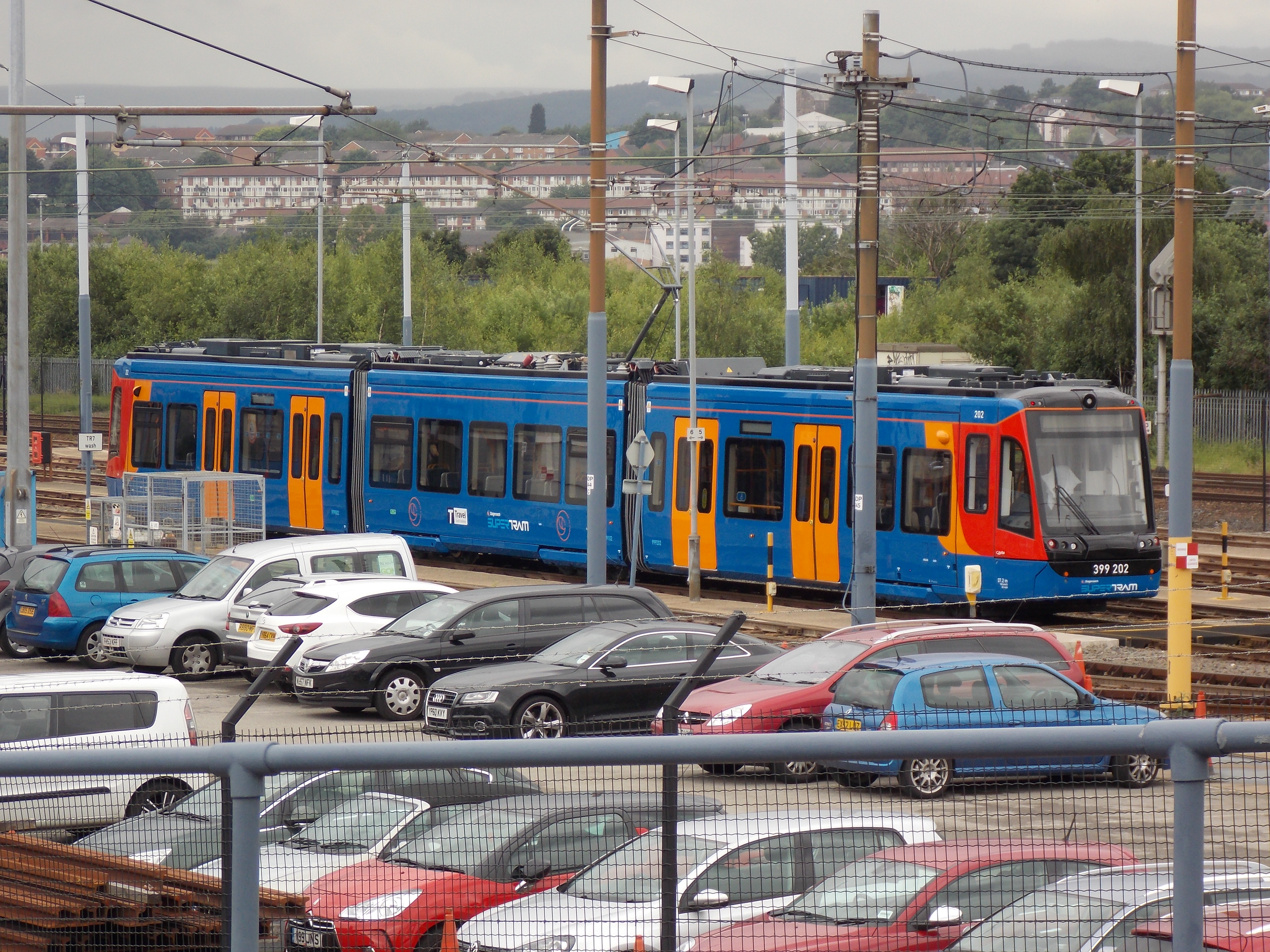 Supertram 399202 inside the depot on 17 June 2016.